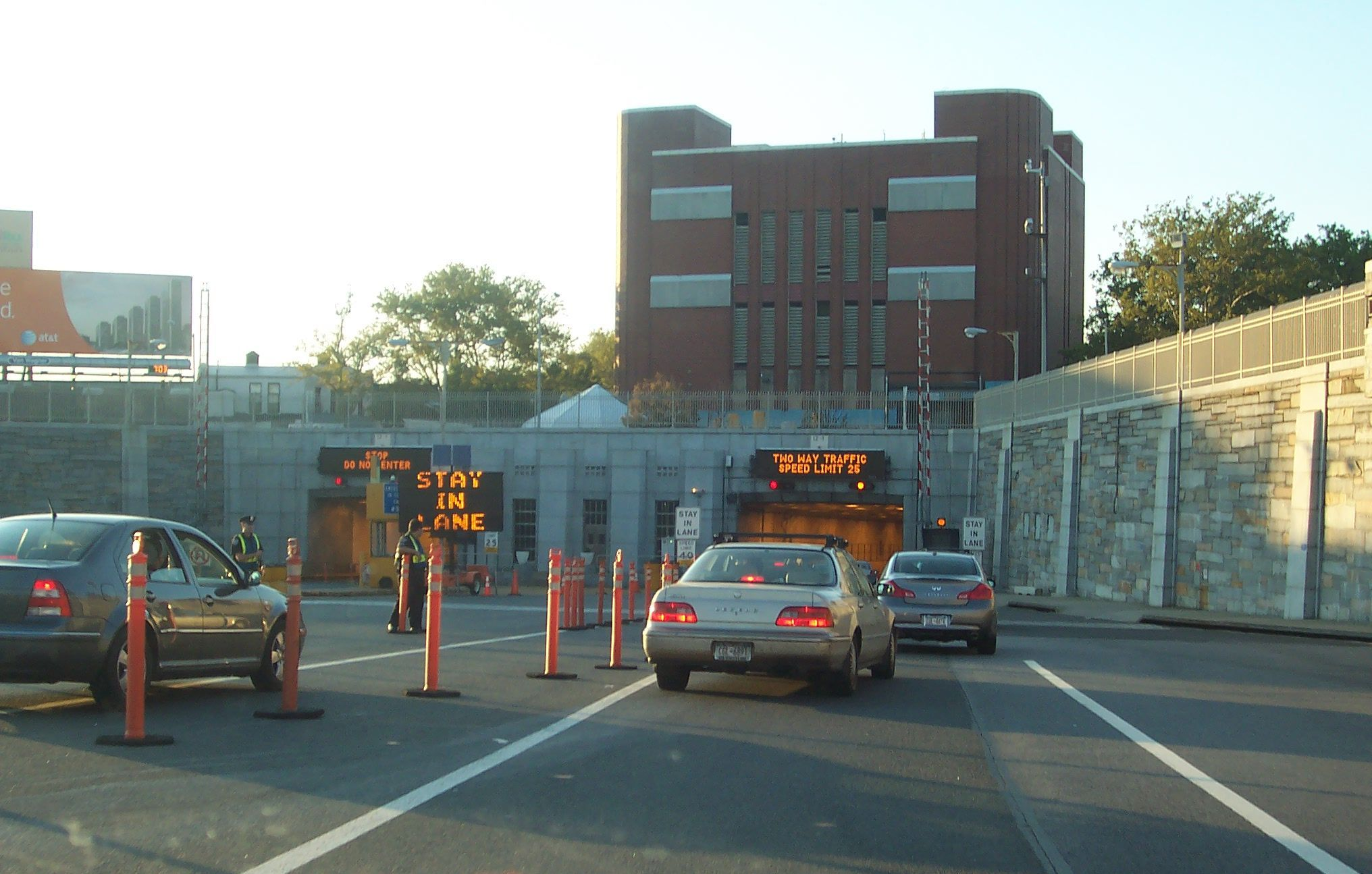 Brooklyn Battery Tunnel, Brooklyn Portal in 2-Way Traffic Pattern (Brooklyn Vent Building in view.